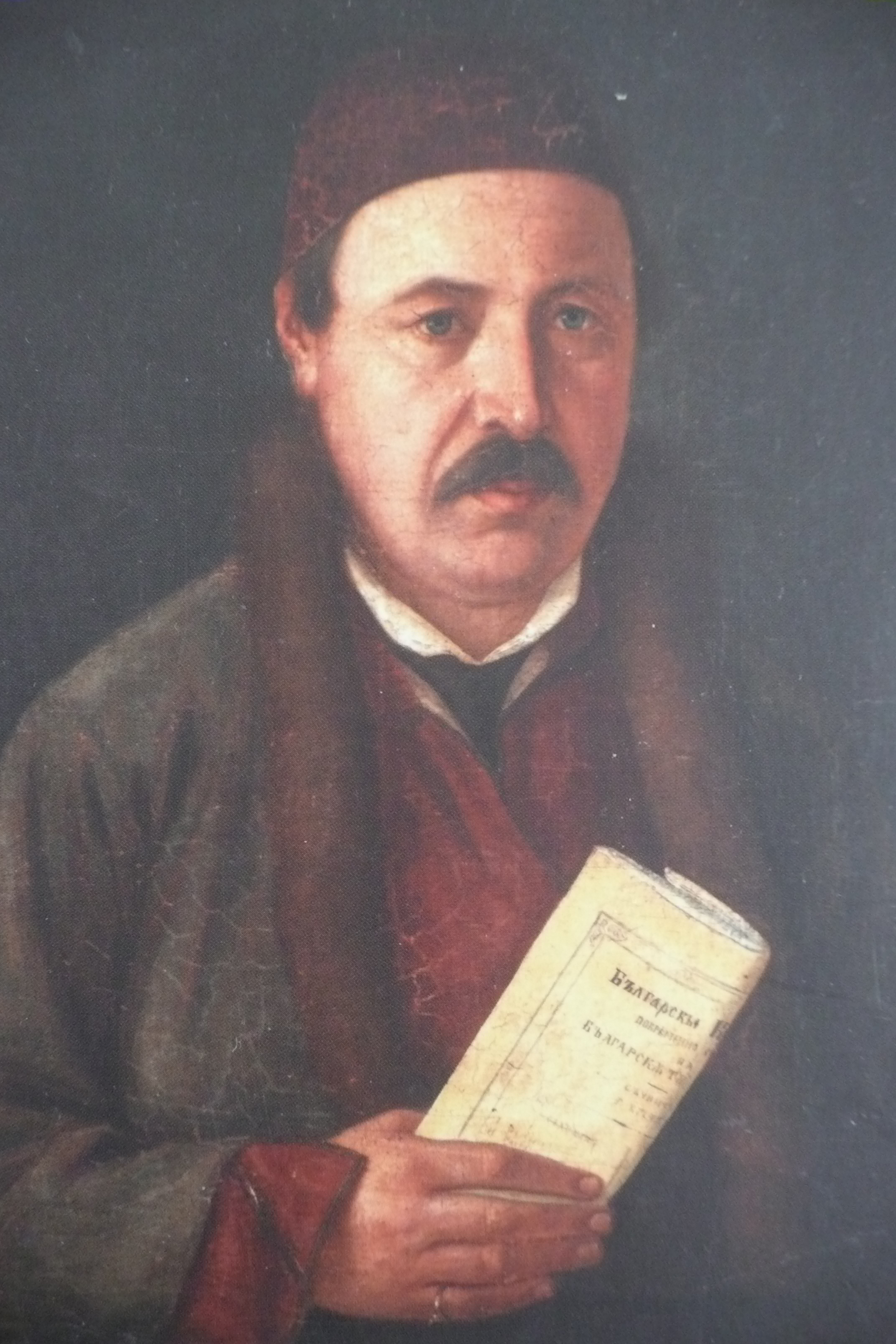 Stefan Zahariev (d. 1871)